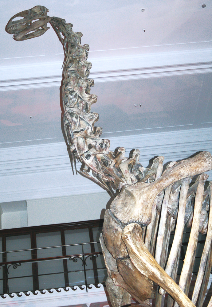 Photo: mounted cast of a Jobaria tiguidensis skeleton at the Australian Museum, Sydney.